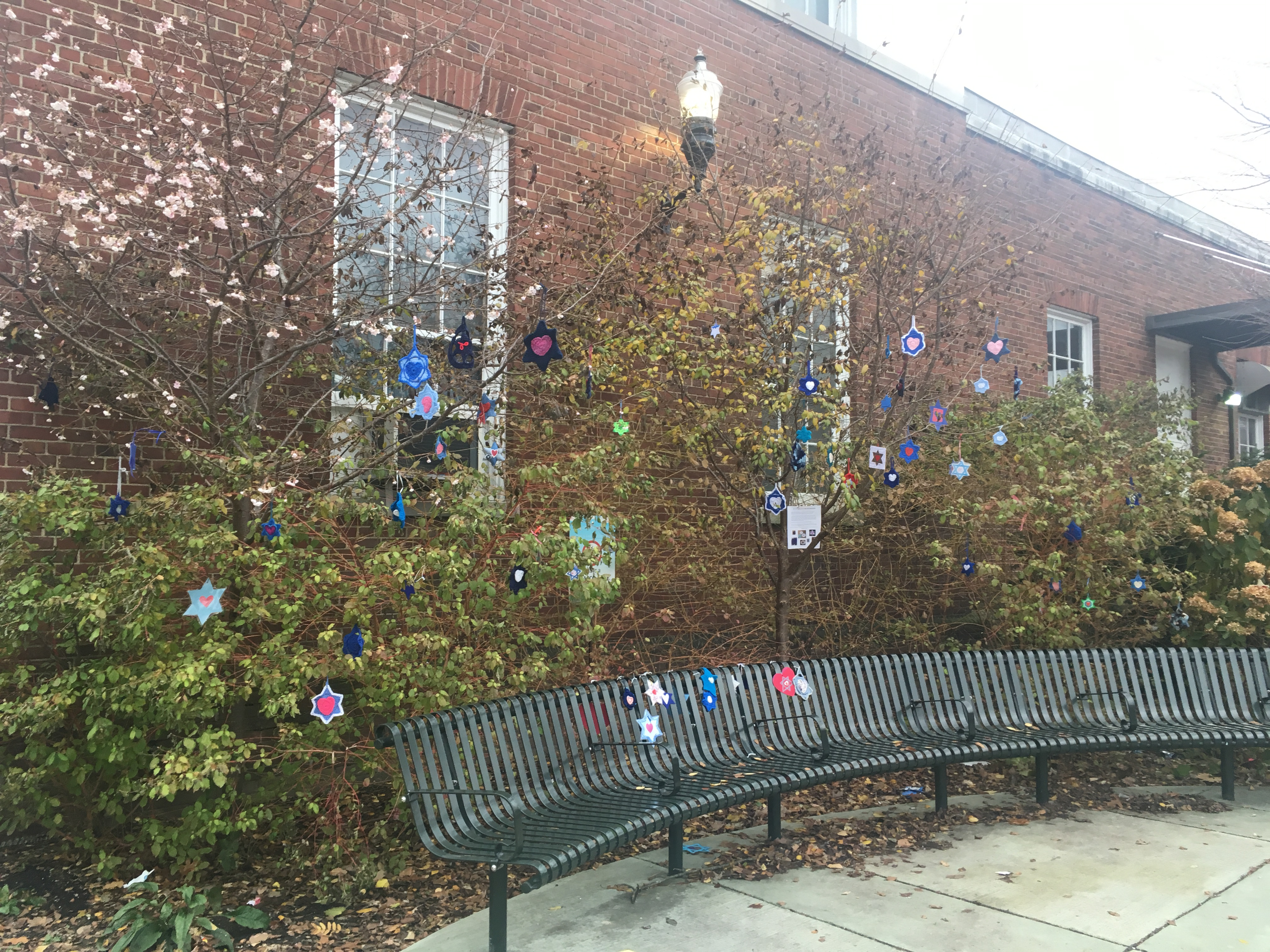 After the Pittsburgh Tree of Life Synagogue shooting event, locals knitted David stars and hang them along the Murray Ave, where one of the largest Jewish community is located.